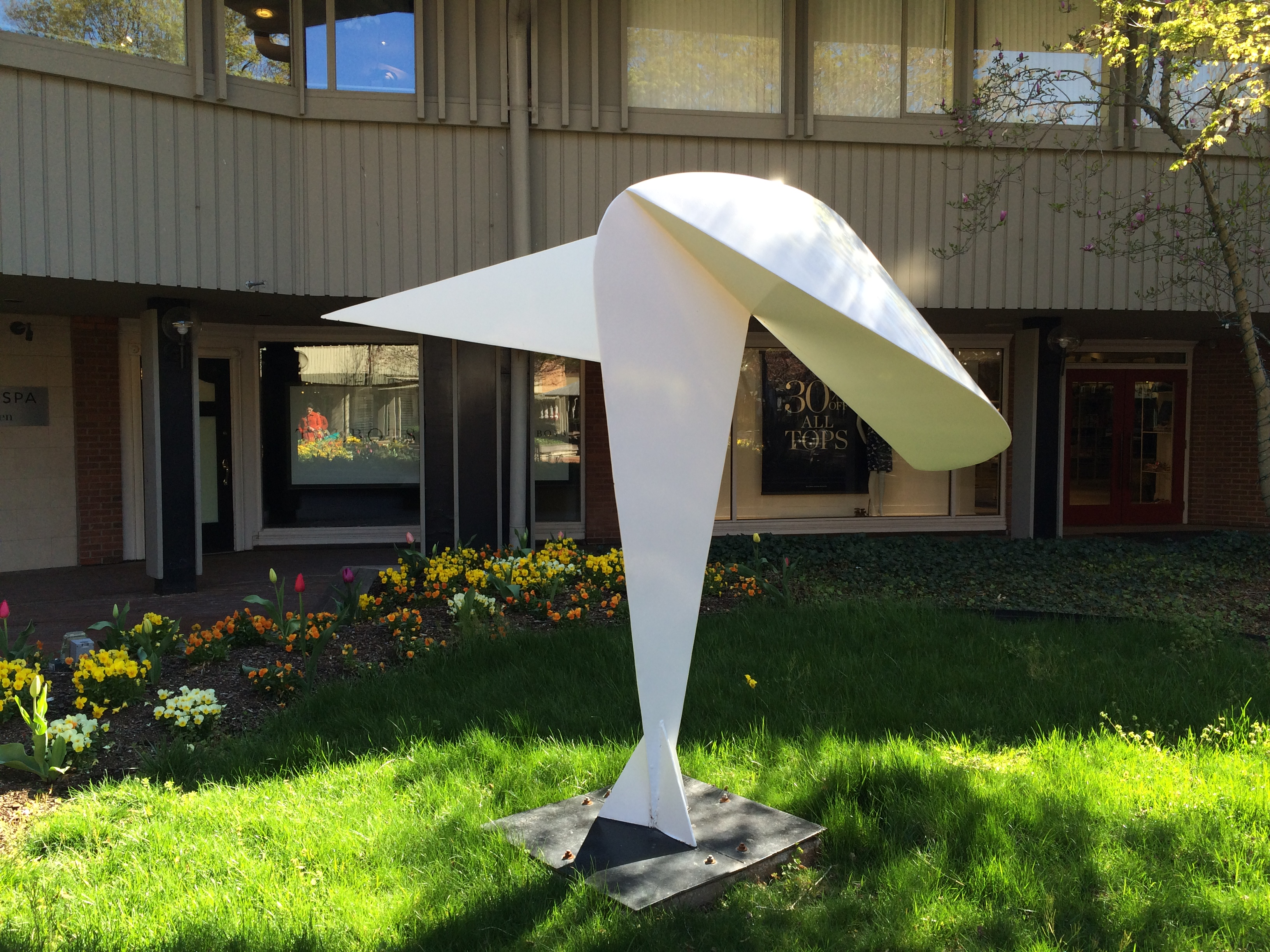 Photograph by Eli Pousson, 2016 April 10.